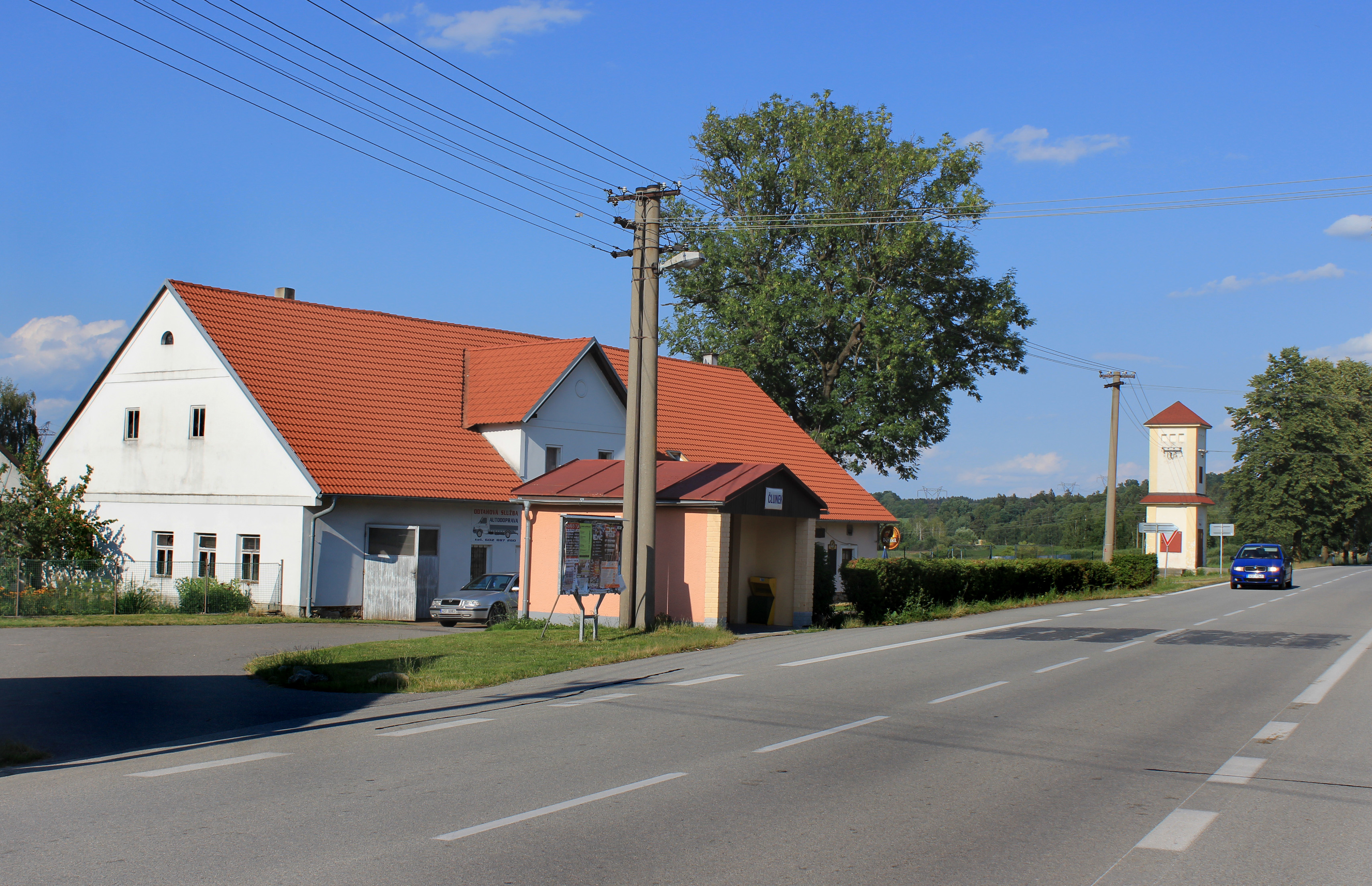 Road No 164 in Člunek, Czech Republic.